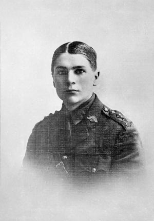 Studio portrait of Captain Blair Anderson Wark c.1916. Wark was later to receive the Distinguished Service Order in 1917, and then the Victoria Cross in 1918.